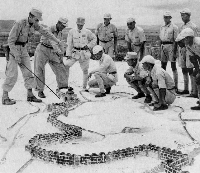 American trainer explains a tactical situation to Chinese soldiers. (U.S. Army Military History Institute)